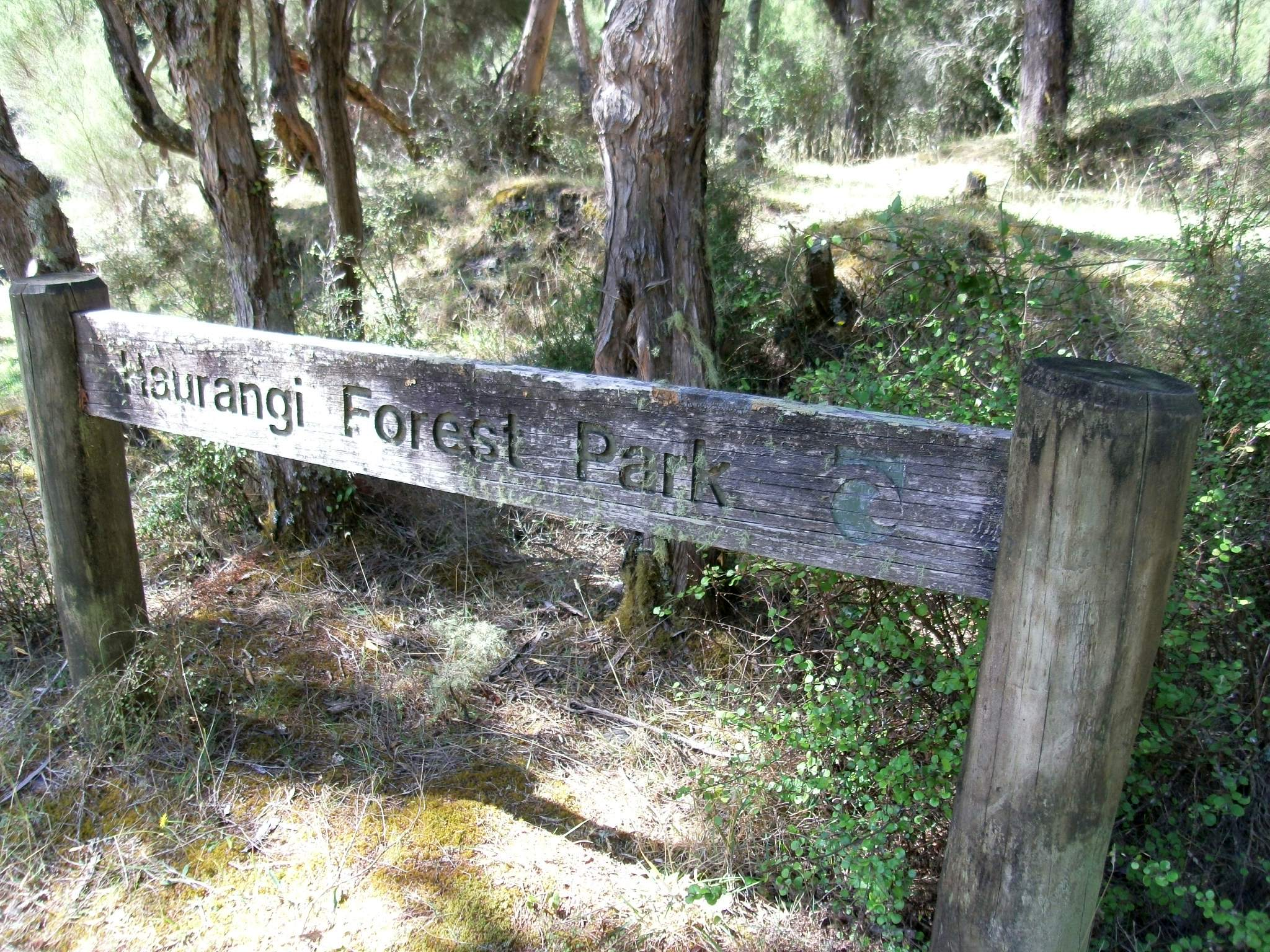 This sign shows the DoC emblem and still the "Haurangi" name; found along the Aorangi crossing near Kawakawa Hut.